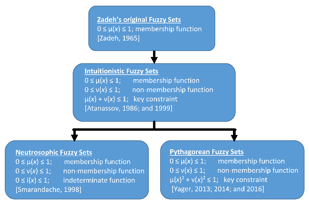 Some Key Developments in the Introduction of Fuzzy Set Concepts.